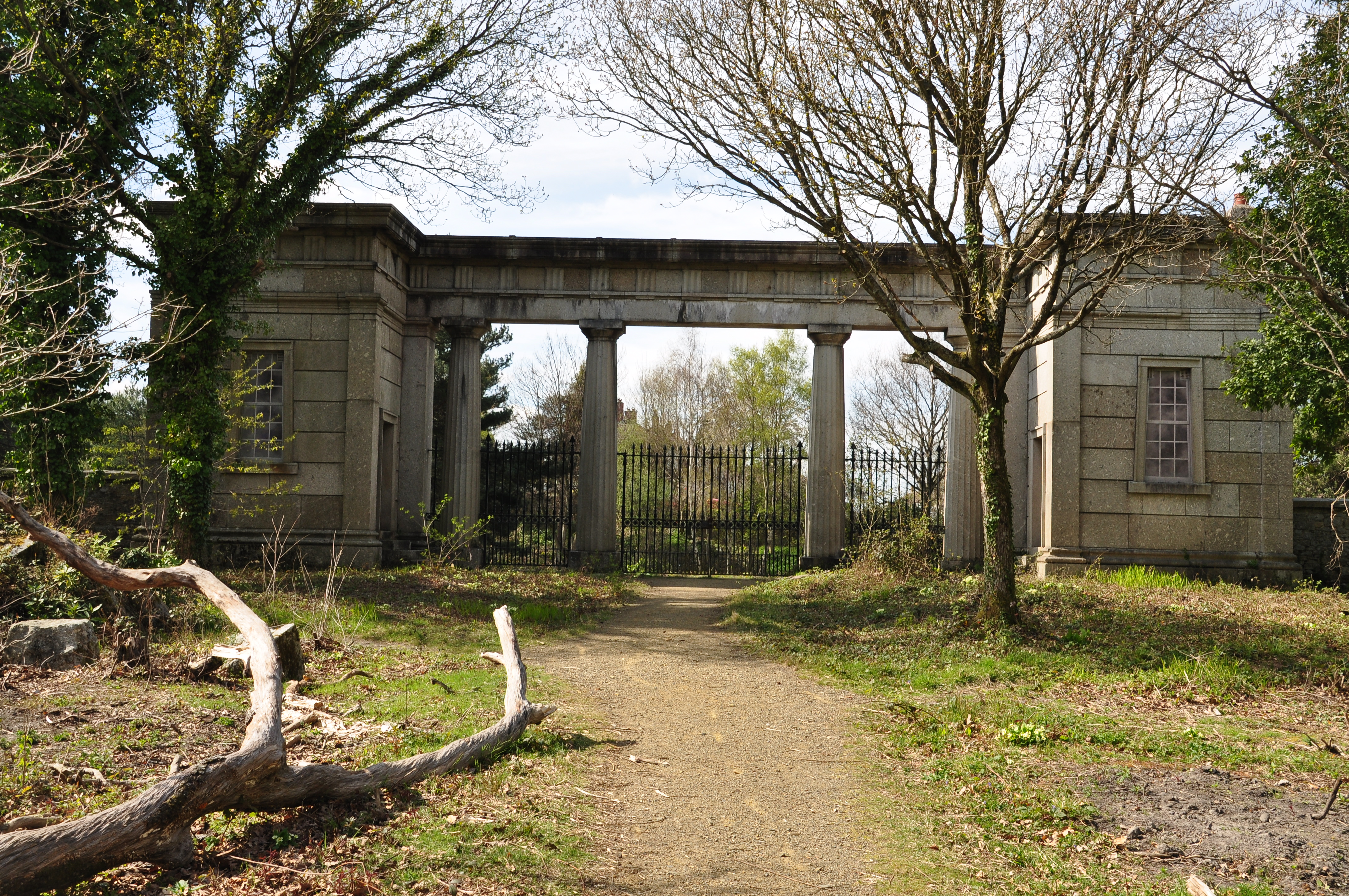 Granite Lodge, Stover Country Park, Devon